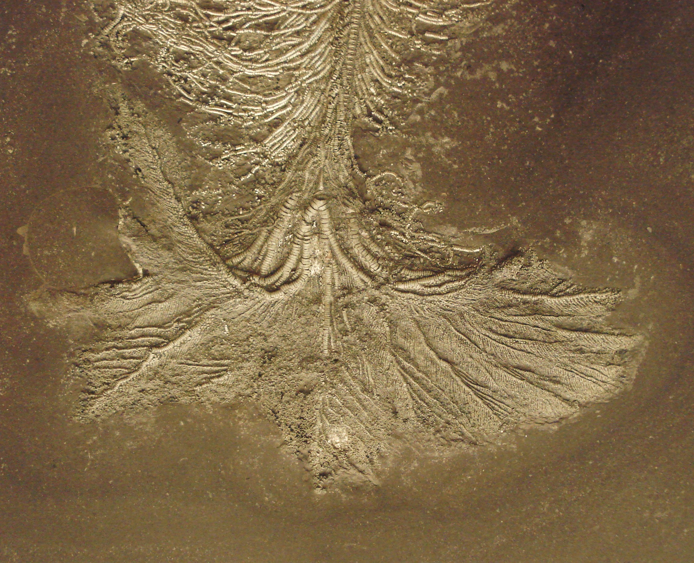 fossil of pentacrinites